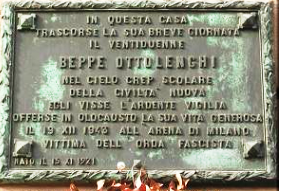 Plaque in via Poggi 13 Milan for Giuseppe Ottolenghi